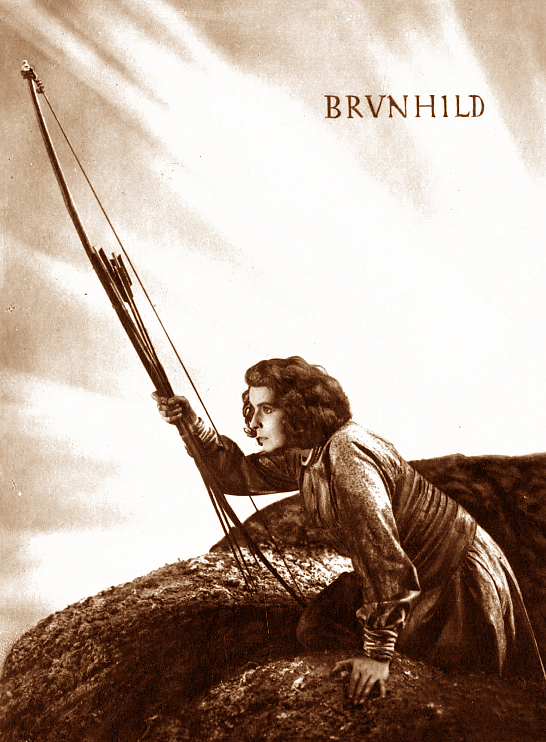 Hanna Ralph as Brunhild. Publicity still for Die Nibelungen: Siegfried (1924, by Fritz Lang). This image is a movie star postcard published by Ross Verlag in Berlin. This is image nr. 672/8 from their series. It was published ca. 1919–1924. This tag does not indicate the copyright status of the attached work. A normal copyright tag is still required. See Commons:Licensing for more information. In particular, Ross images are in the public domain in Germany only if it can be shown that the photographer (usually mentioned on the image itself) has died more than 70 years ago. Ross images that are in the public domain in Germany may still be copyrighted in the United States if they were first published later than 1924 and were still copyrighted in Germany on January 1, 1996 (i.e. if the photographer died in 1926 or later).